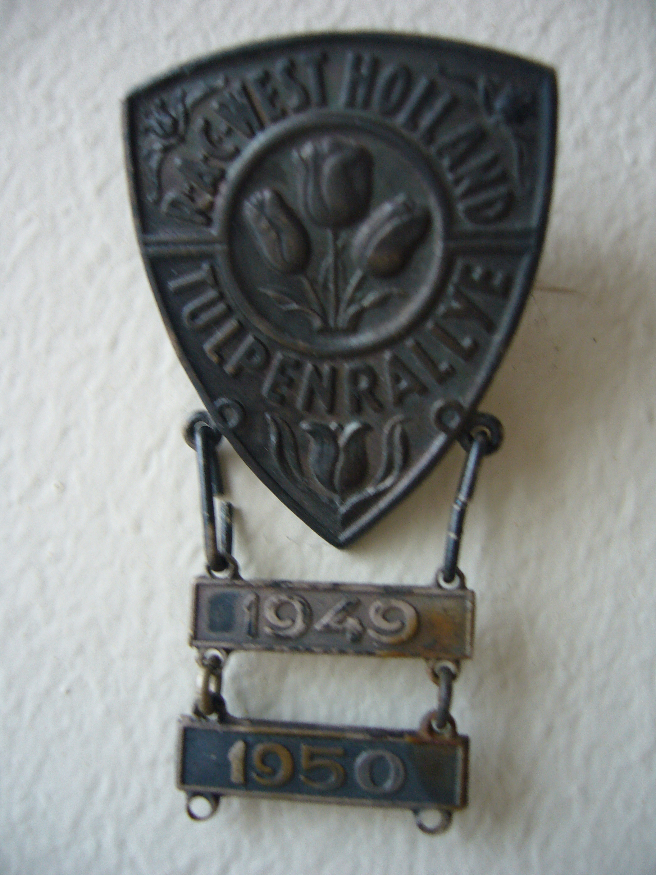 Tulpenrallye, memory pin